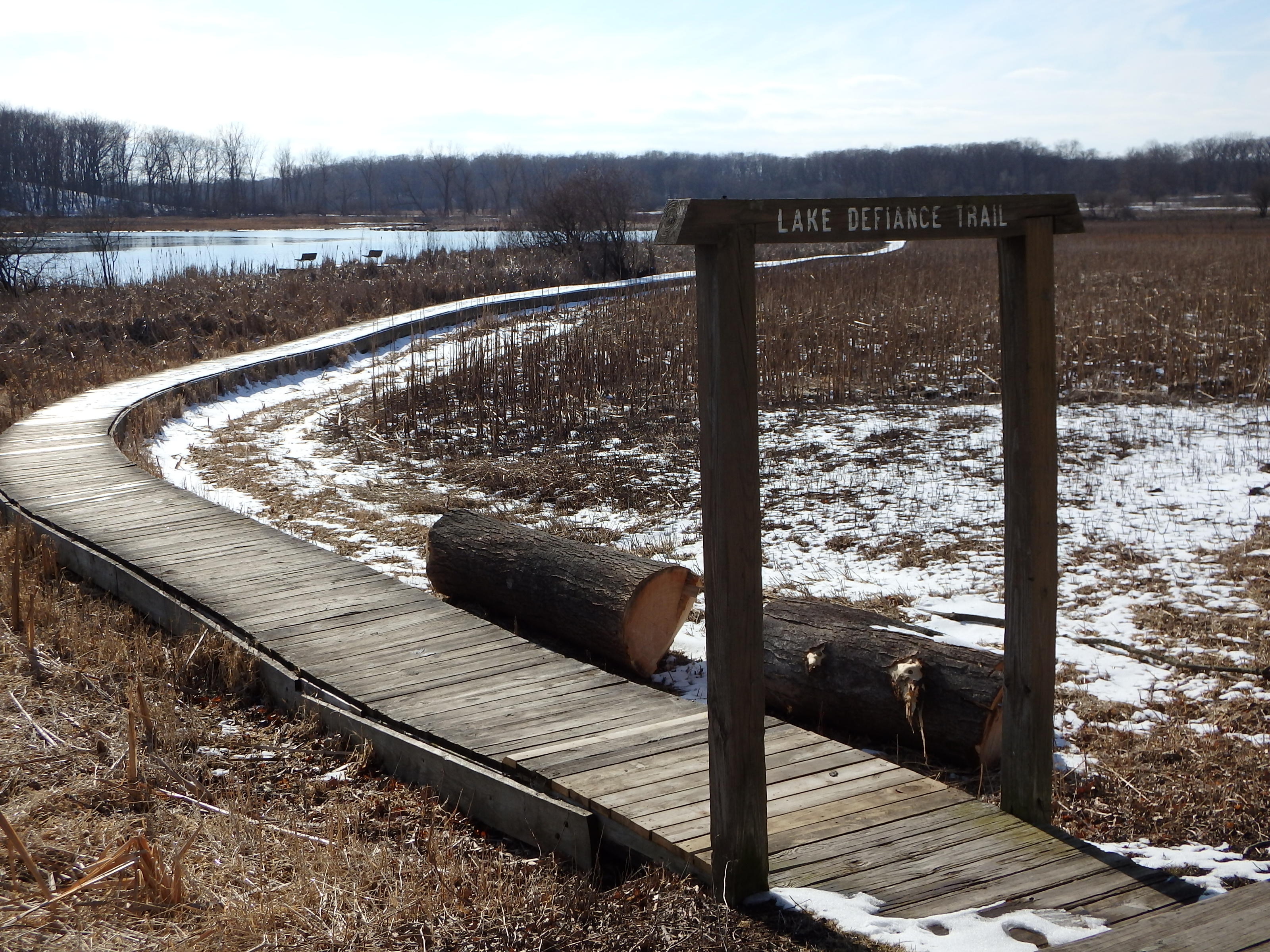 McHenry Co. IL